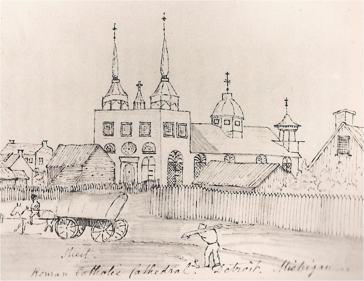 Detroit Roman Catholic Cathedral